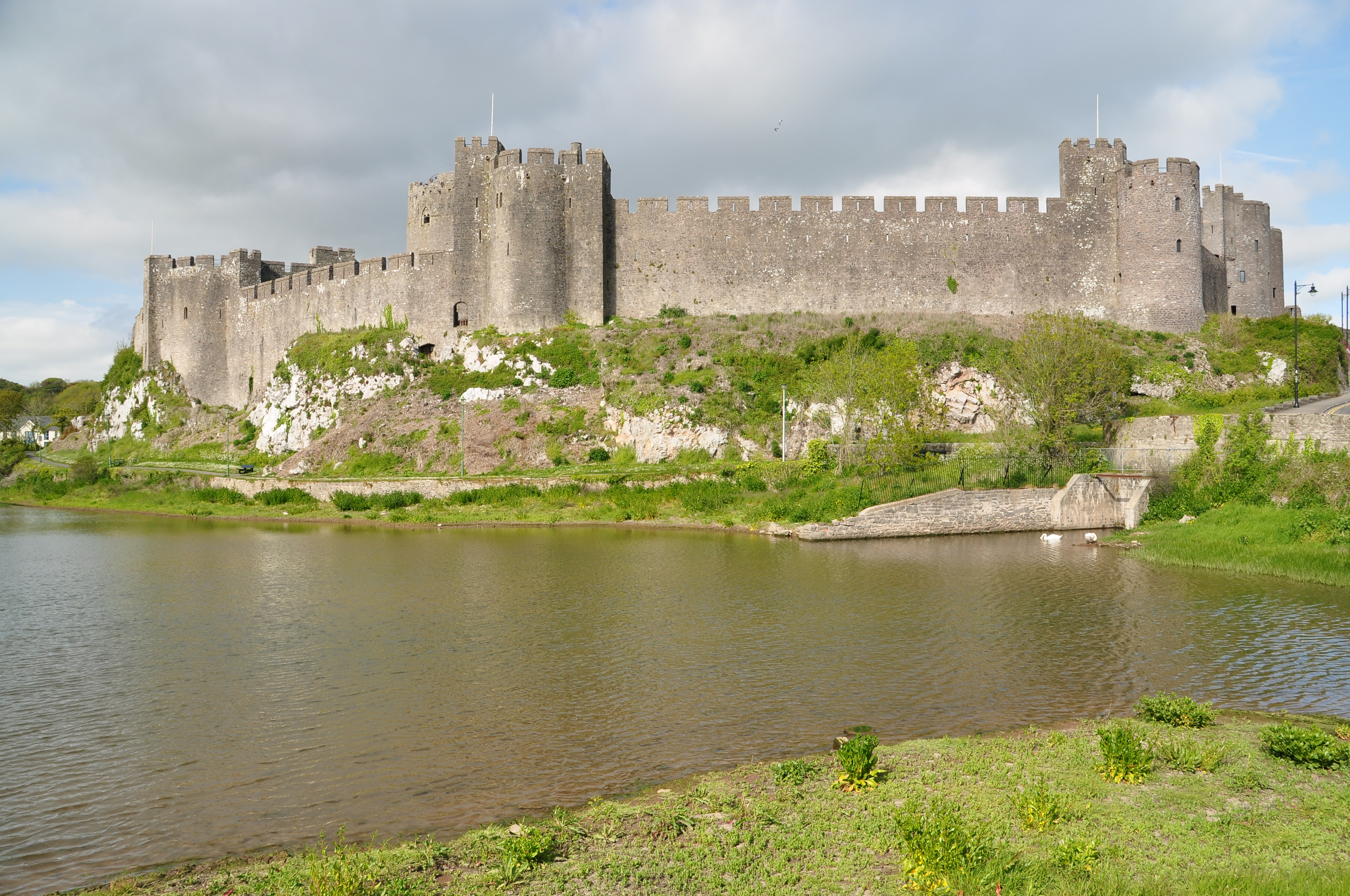 Pembroke Castle